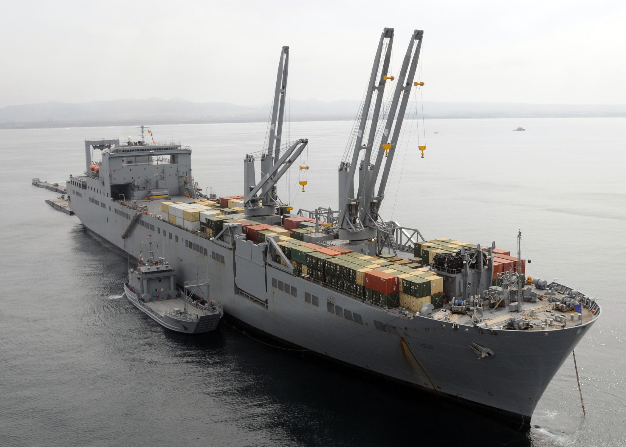 PACIFIC OCEAN (July 22, 2008) The Military Sealift Command large, medium-speed roll-on/roll-off ship USNS Pililaau (T-AKR 304) is anchored off the coast of Red Beach in Camp Pendelton, Calif., with the roll-on/roll-off discharge facility extending aft of the ship during Joint Logistics Over-The-Shore (JLOTS) 2008. JLOTS 2008 is an engineering, logistical training exercise between Army and Navy units under a joint force commander as a means to load and unload ships without the benefit of deep draft-capable, fixed port facilities. (U.S. Navy photo by Mass Communication Specialist 2nd Class Brian P. Caracci/Released)